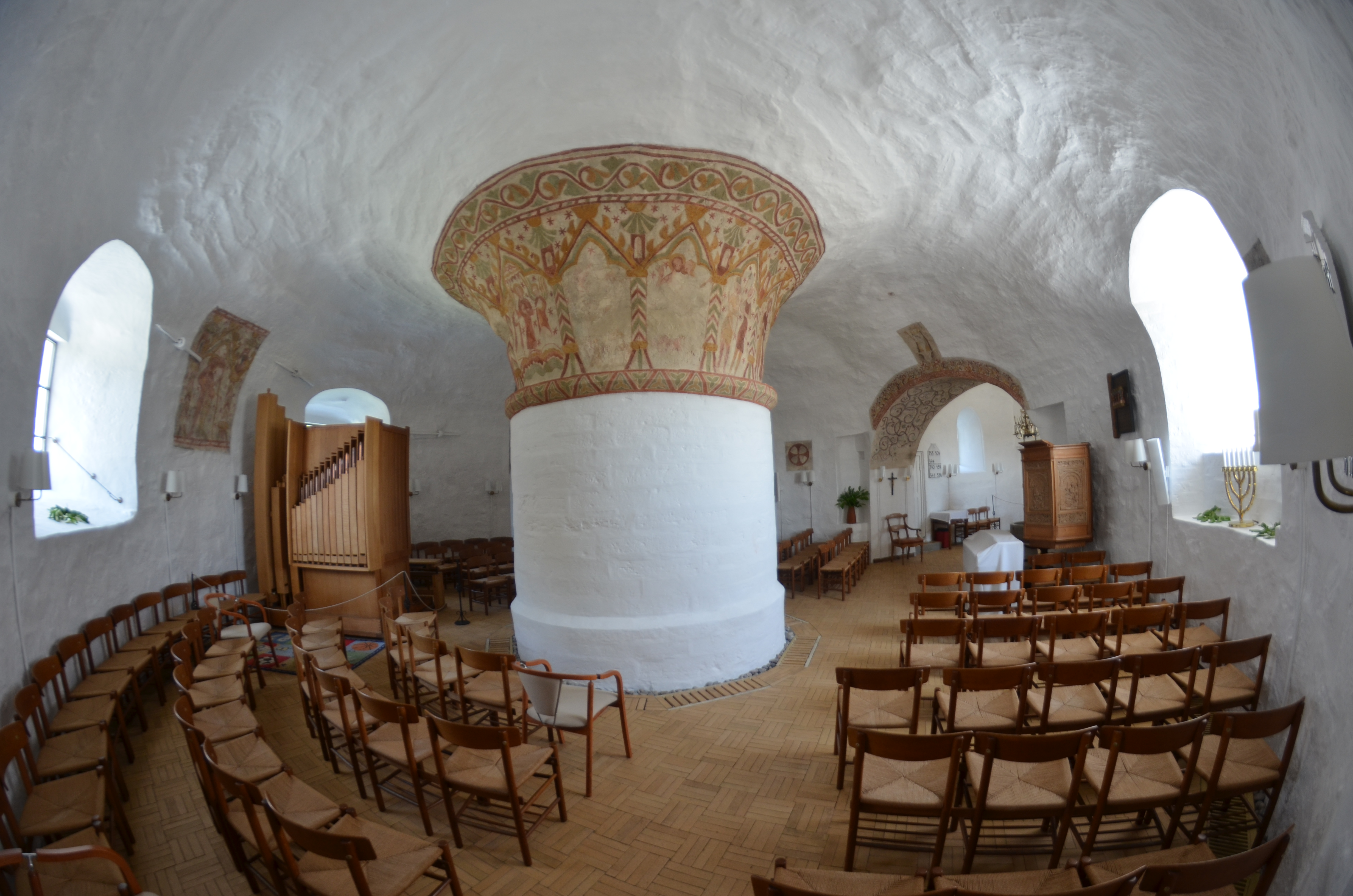 Bornholm - Ny Kirke - Indoor panorama view. (Image has been made with Fish-eye lense)